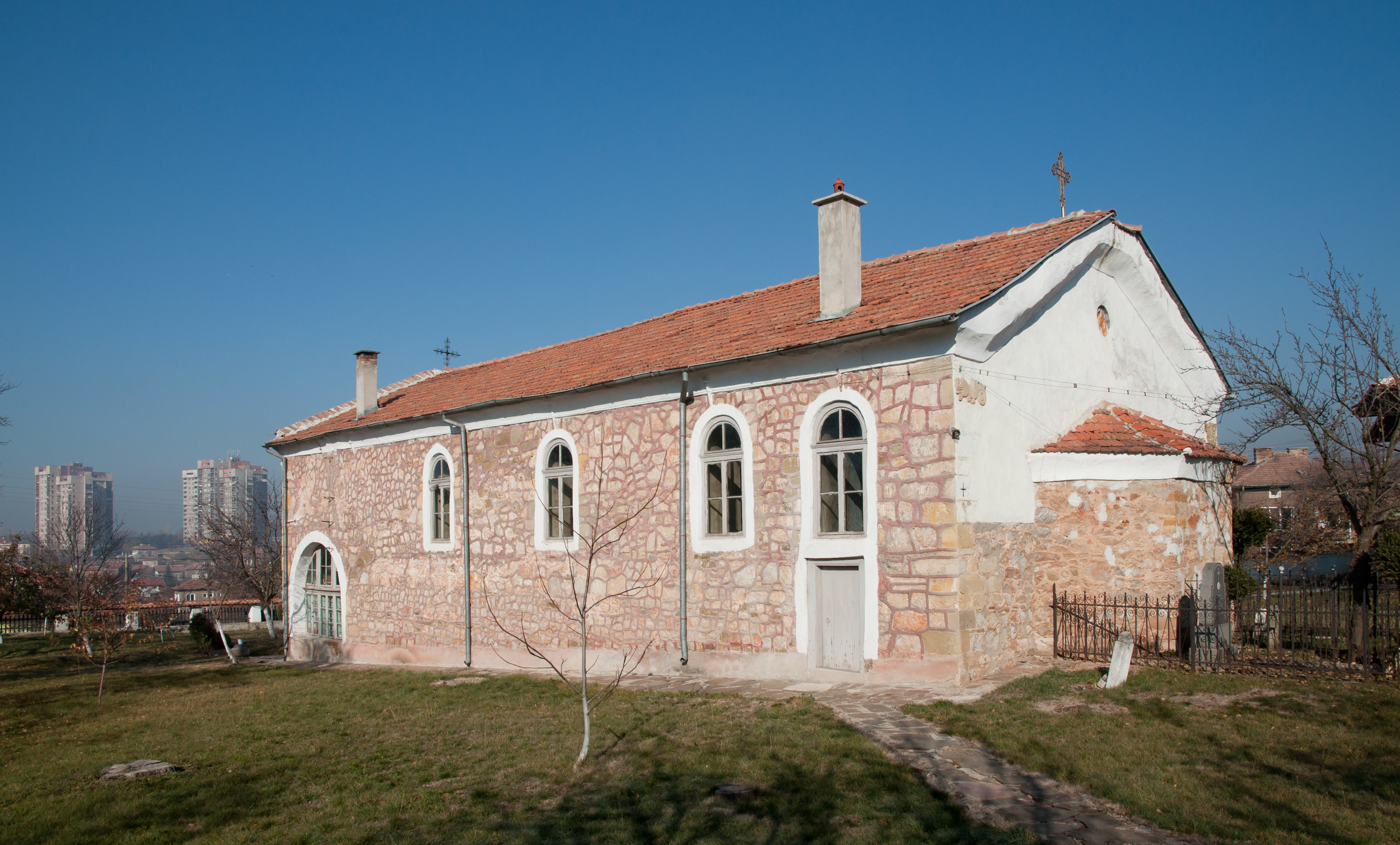 St Demetrius Church in the town of Radomir, Bulgaria.